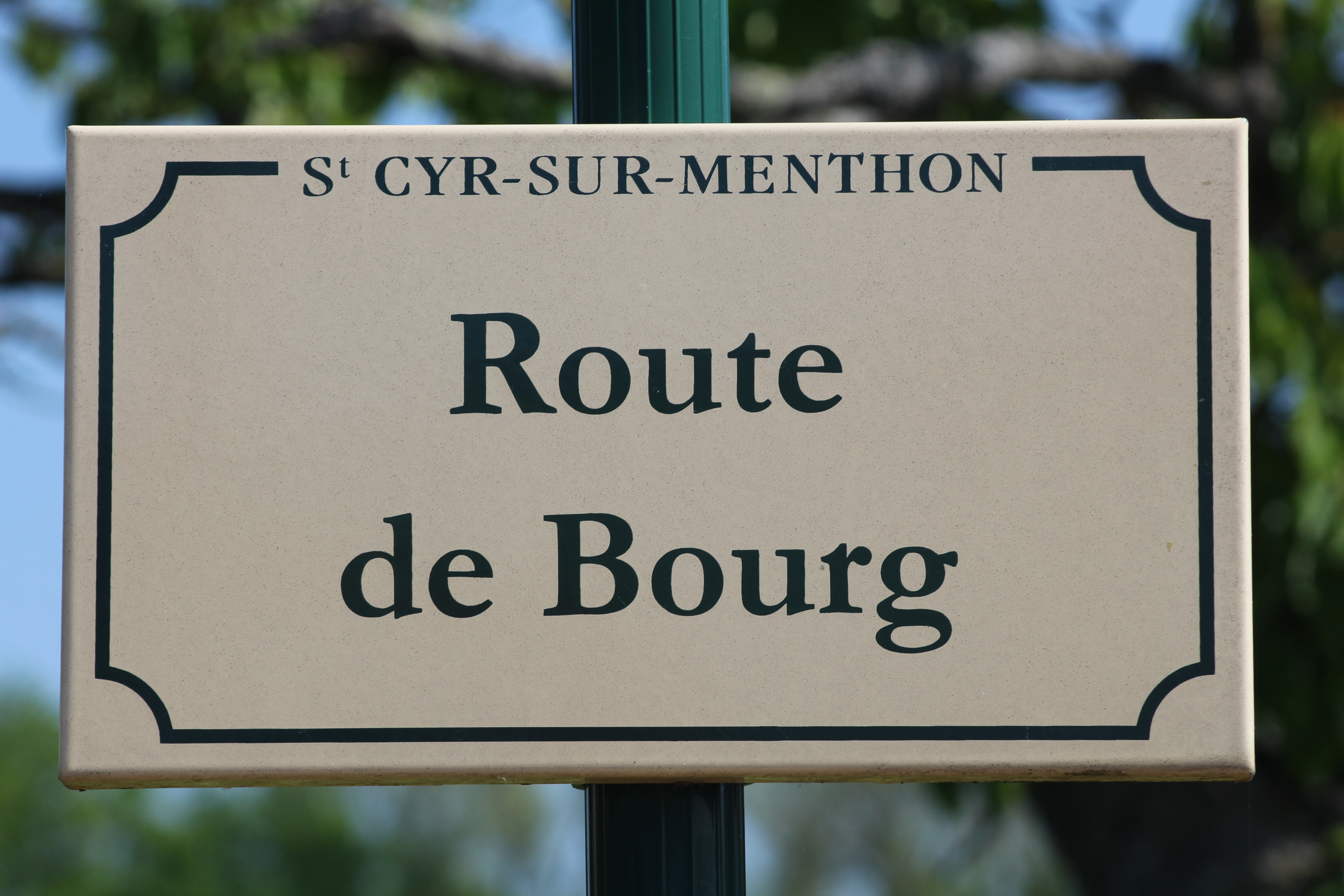 Street sign of Bourg road in Saint-Cyr-sur-Menthon, France.